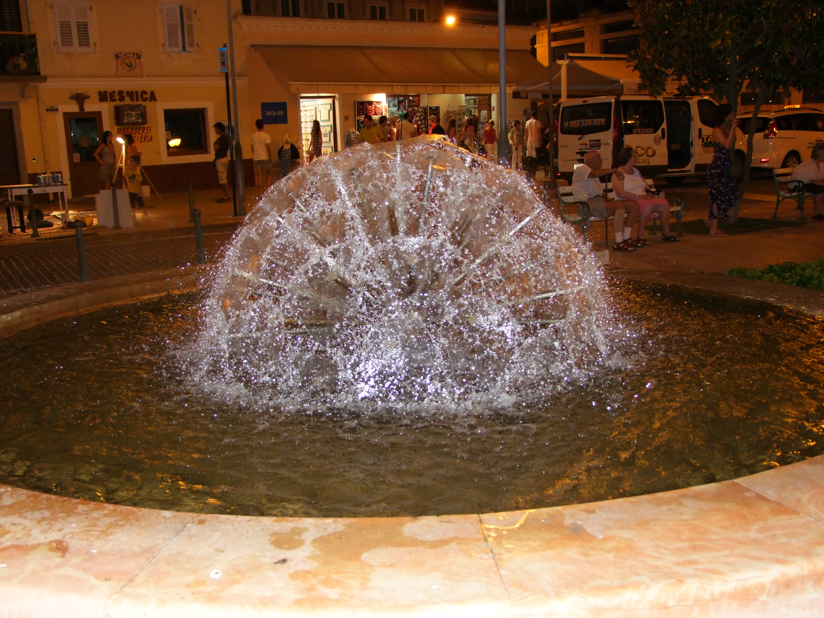 Fountain in Mali Lošinj, Croatia.